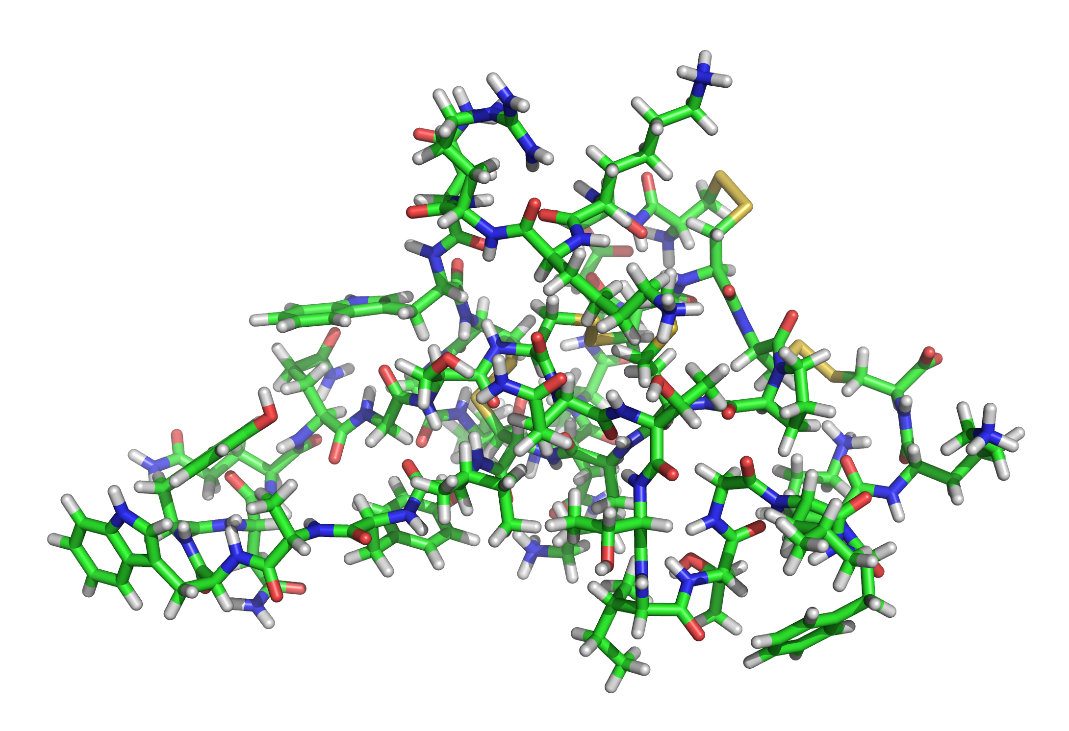 3d stick model of delta-atracotoxin-Ar1 (robustoxin) from funnel-web spider (Atrax robustus) after PDB 1QDP. Ref.: Pallaghy PK, Alewood D, Alewood PF, Norton RS (December 1997). "Solution structure of robustoxin, the lethal neurotoxin from the funnel-web spider Atrax robustus". FEBS Lett. 419 (2-3): 191–6. PMID 9428632.